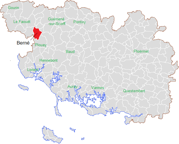 placement Berné in departement Morbihan